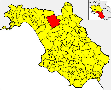 Locator map of the municipality of Camerota (red) within the Province of Salerno